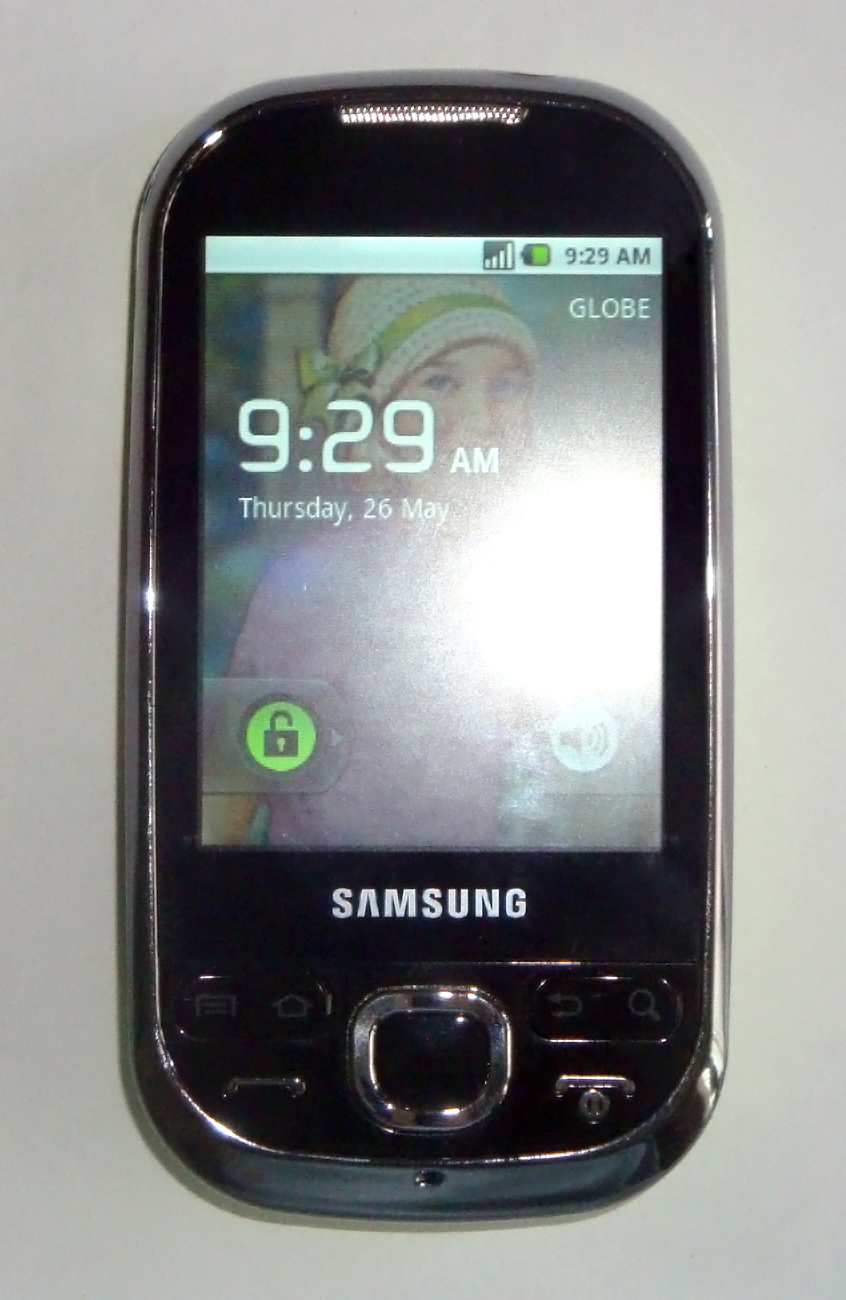 Photo of a Samsung i5500 taken by the author.